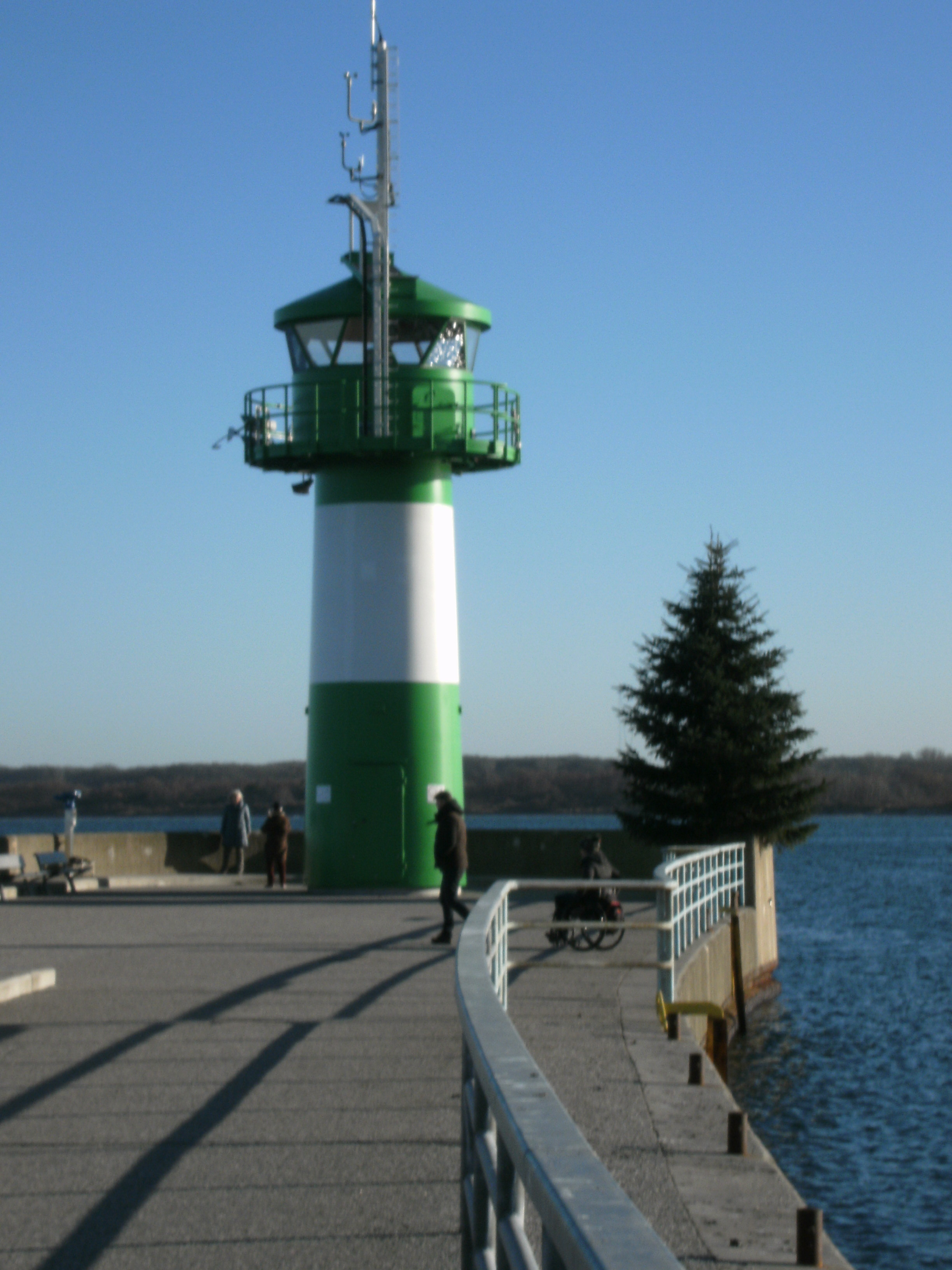 Lighthouse at the end of the north mole in Travemünde, Germany with Christmas Tree.